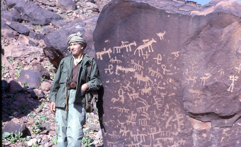 (CC-BY/-SA license) Henri Lhote Photo taken in December 1967 Photo from Flickr Photo by user "gbaku"